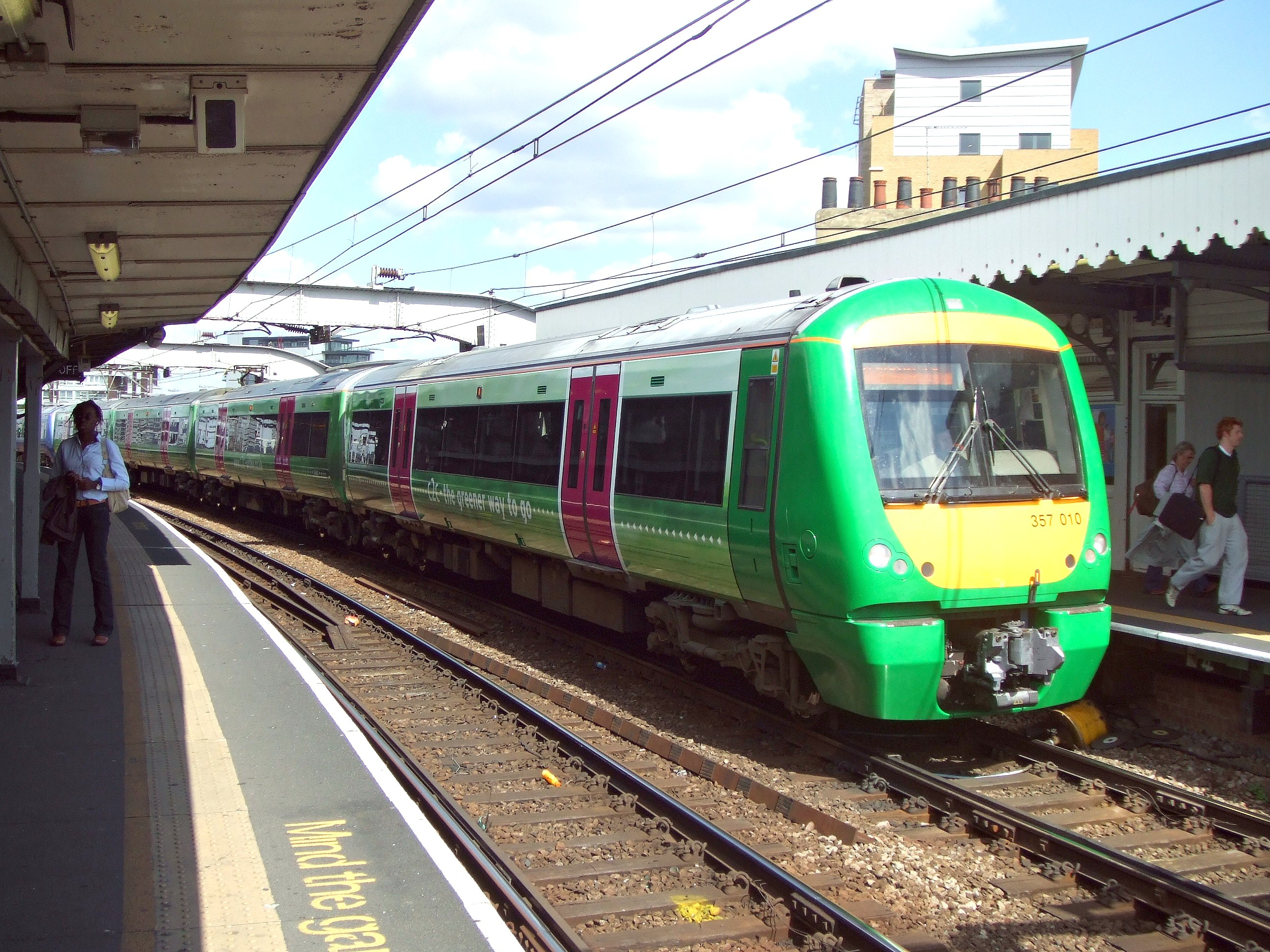 Adtranz (Derby) Class 357/0 "Electrostar" 25k v ac overhead inner-suburban 4-car emu of C2C in "green" livery after being converted to regenerative braking; at Limehouse on a Southend - Fenchurch St. service, 07/07.